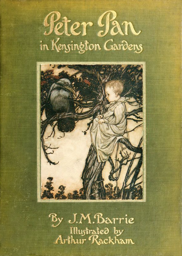 Cover of Peter Pan in Kensington Gardens, illustrated by Arthur Rackham.